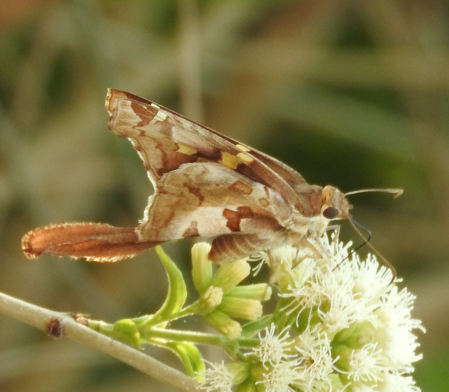 Zilpa Longtail (Chioides zilpa). Species of insect.